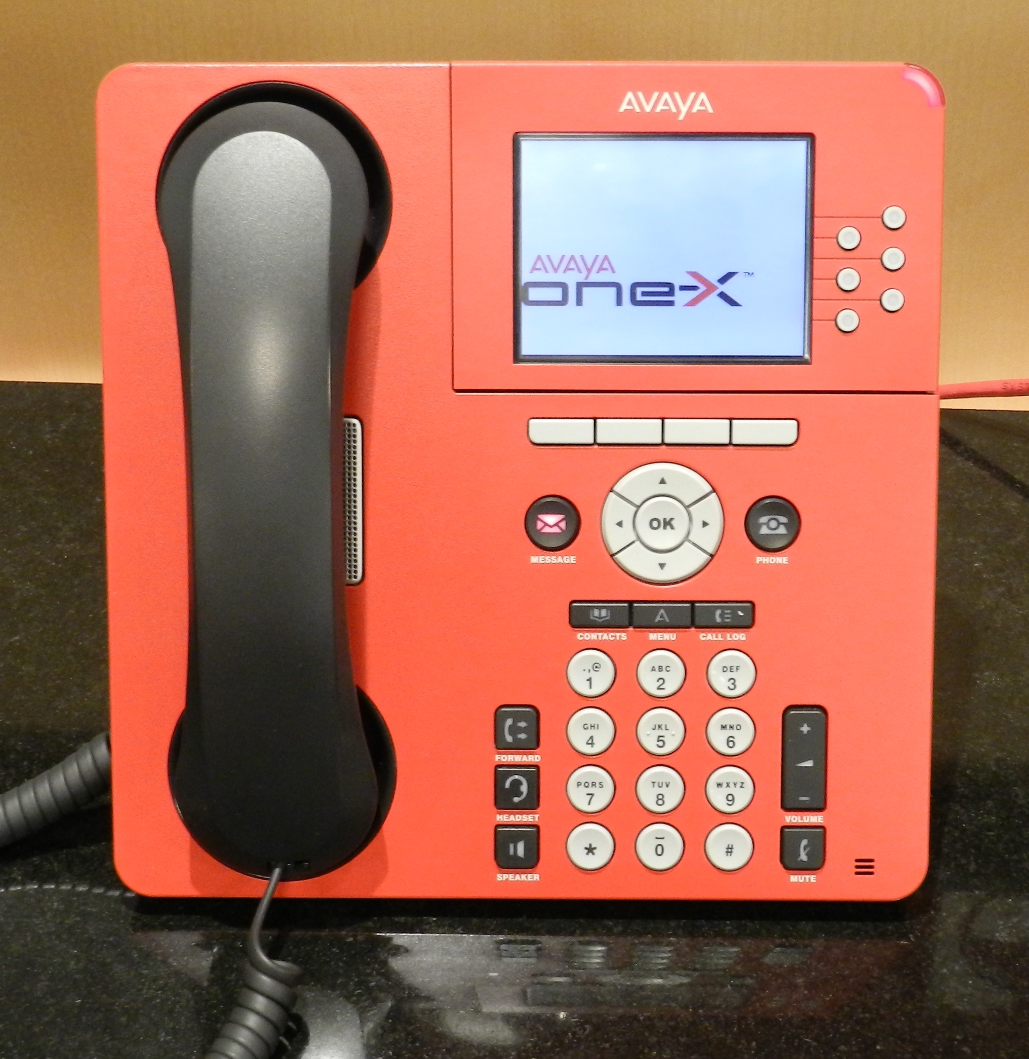 Photo of a red Avaya 9640 IP Deskphone